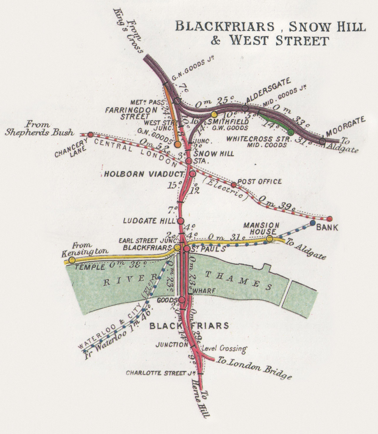 Pre Grouping railway junction around Blackfriars, Snow Hill & West Street, London, UK